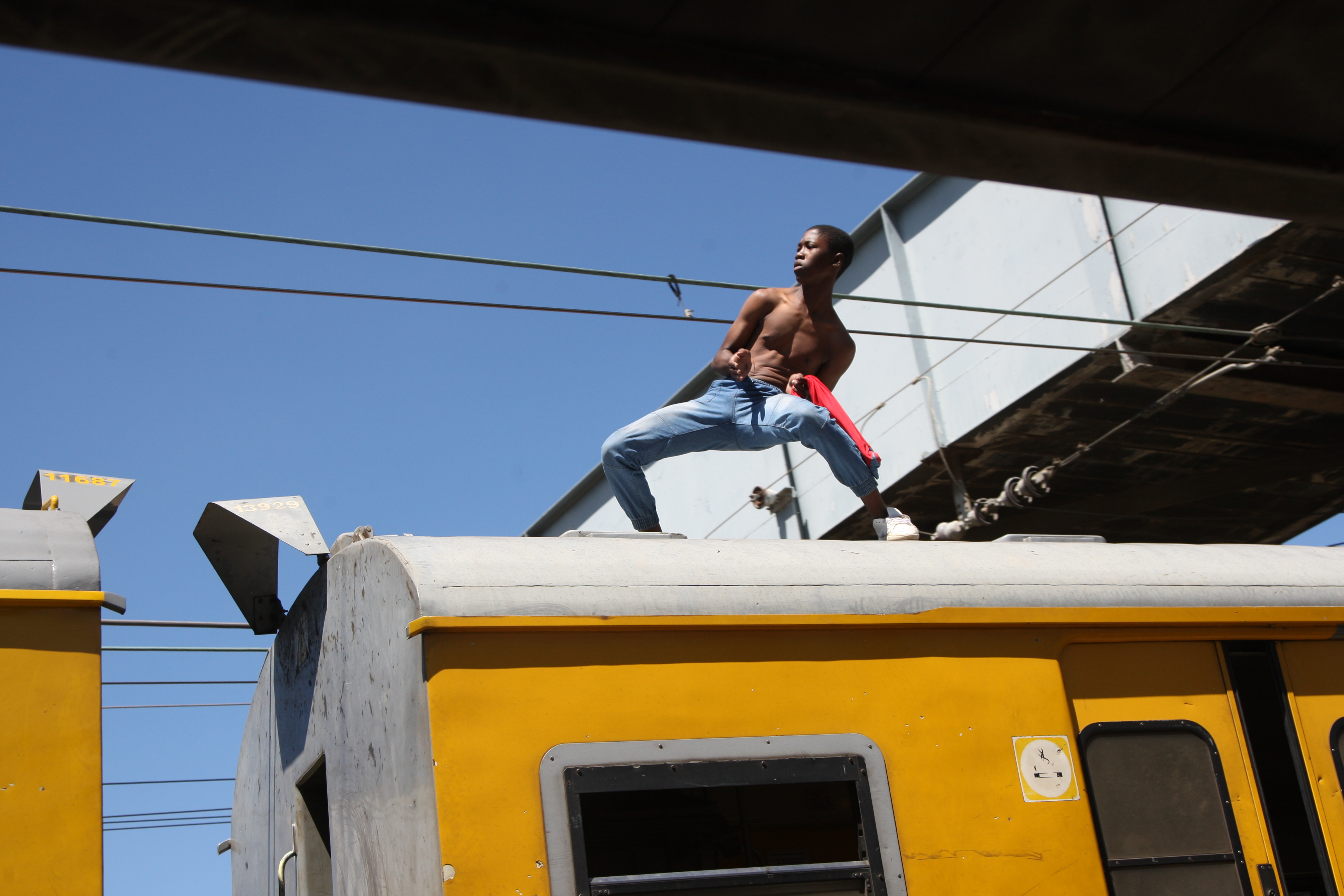 Train Surfing in Soweto This is an image with the theme "Africa on the Move or Transport" from: South Africa